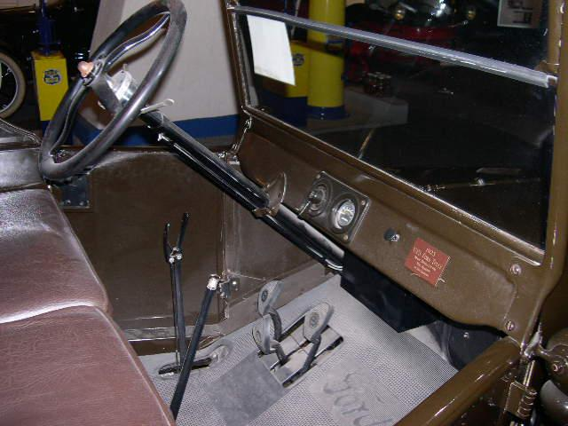 1923 Ford Model T interior From the Petersen Automotive Museum, Los Angeles, CA